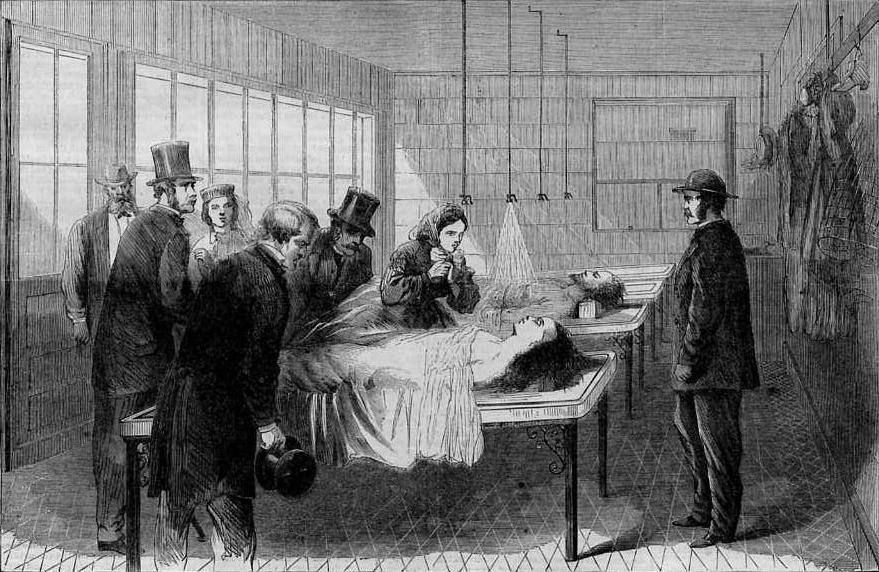 A Scene in the New York Morgue -- Identification of the Unknown Dead, a wood engraving sketched by Stanley Fox and published in Harper's Weekly, July 7, 1866. The city's first morgue opened in 1866 on the grounds of Bellevue Hospital near the East River.